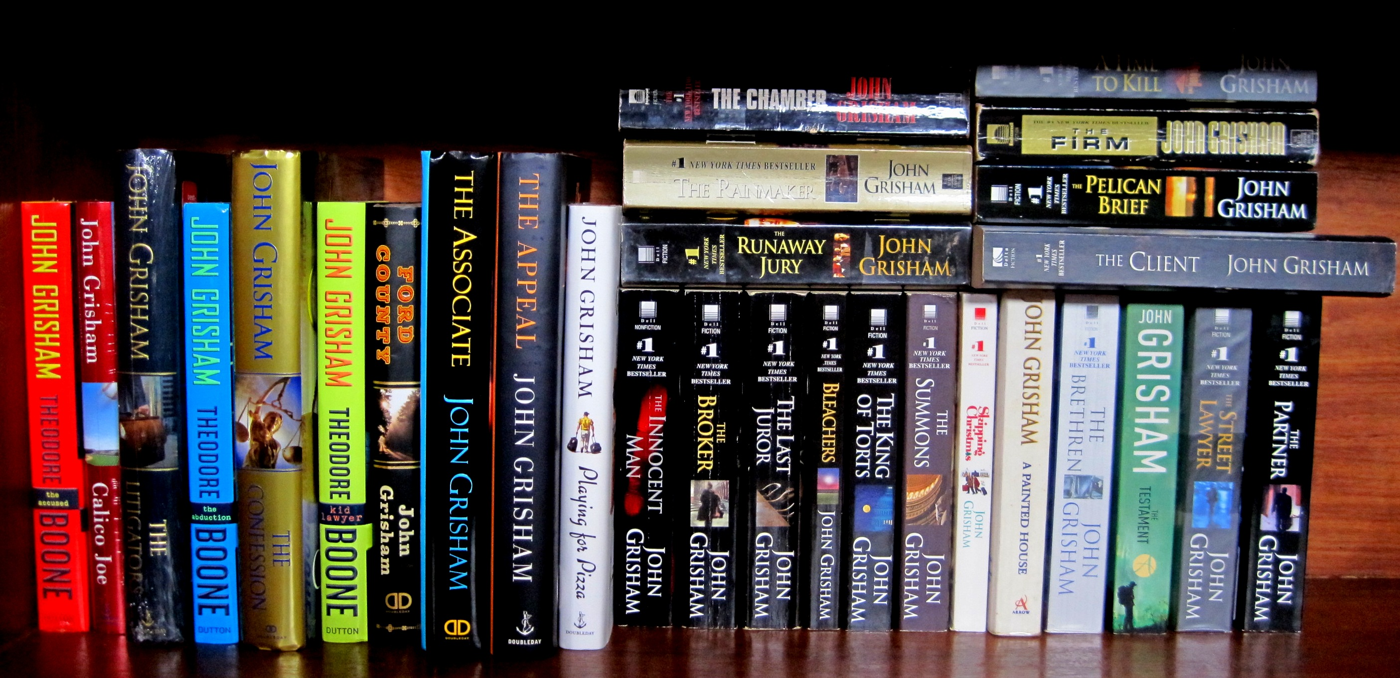 My collection of John Grisham books